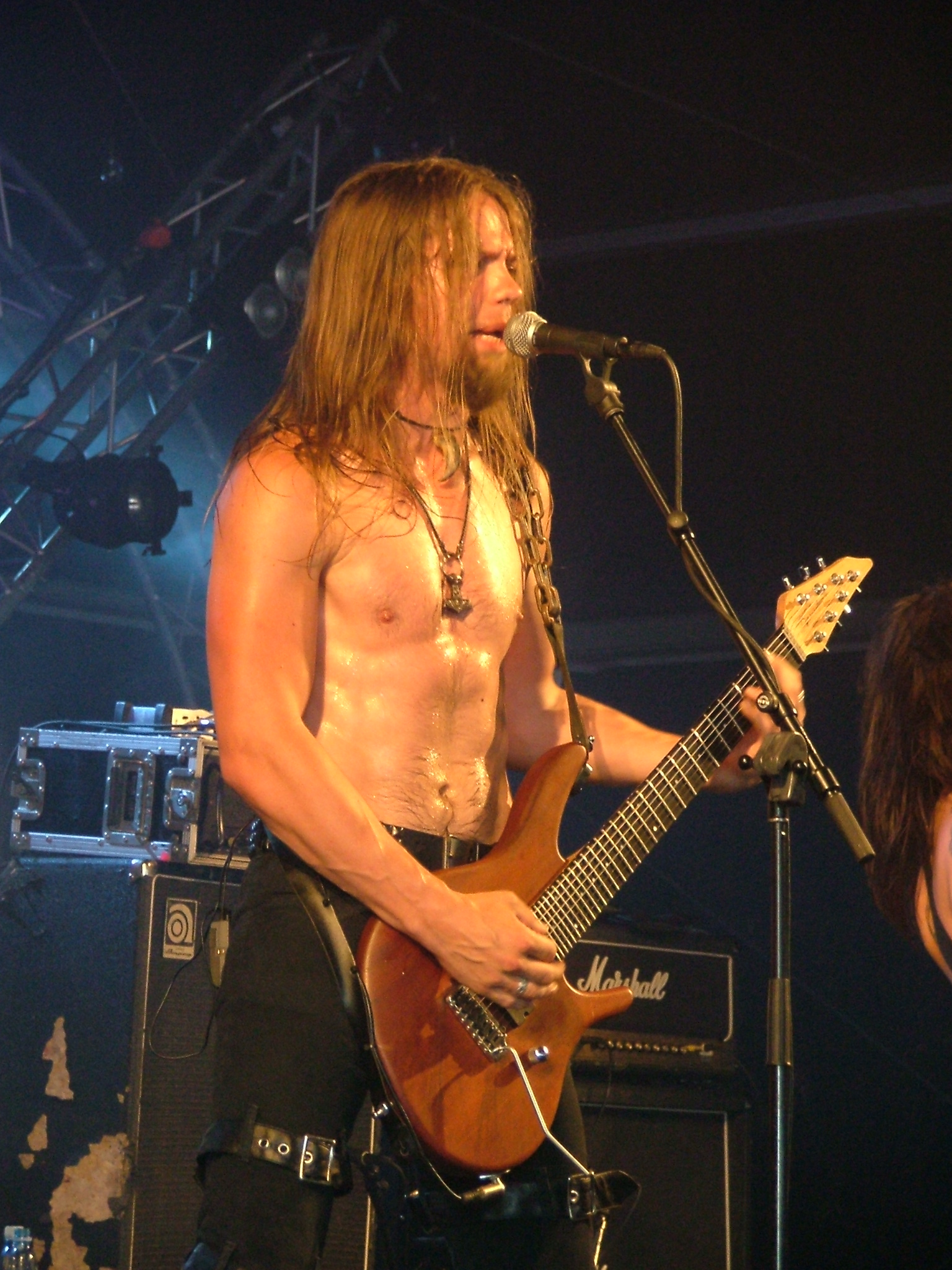 Metal band Týr live at Tuska-Festival